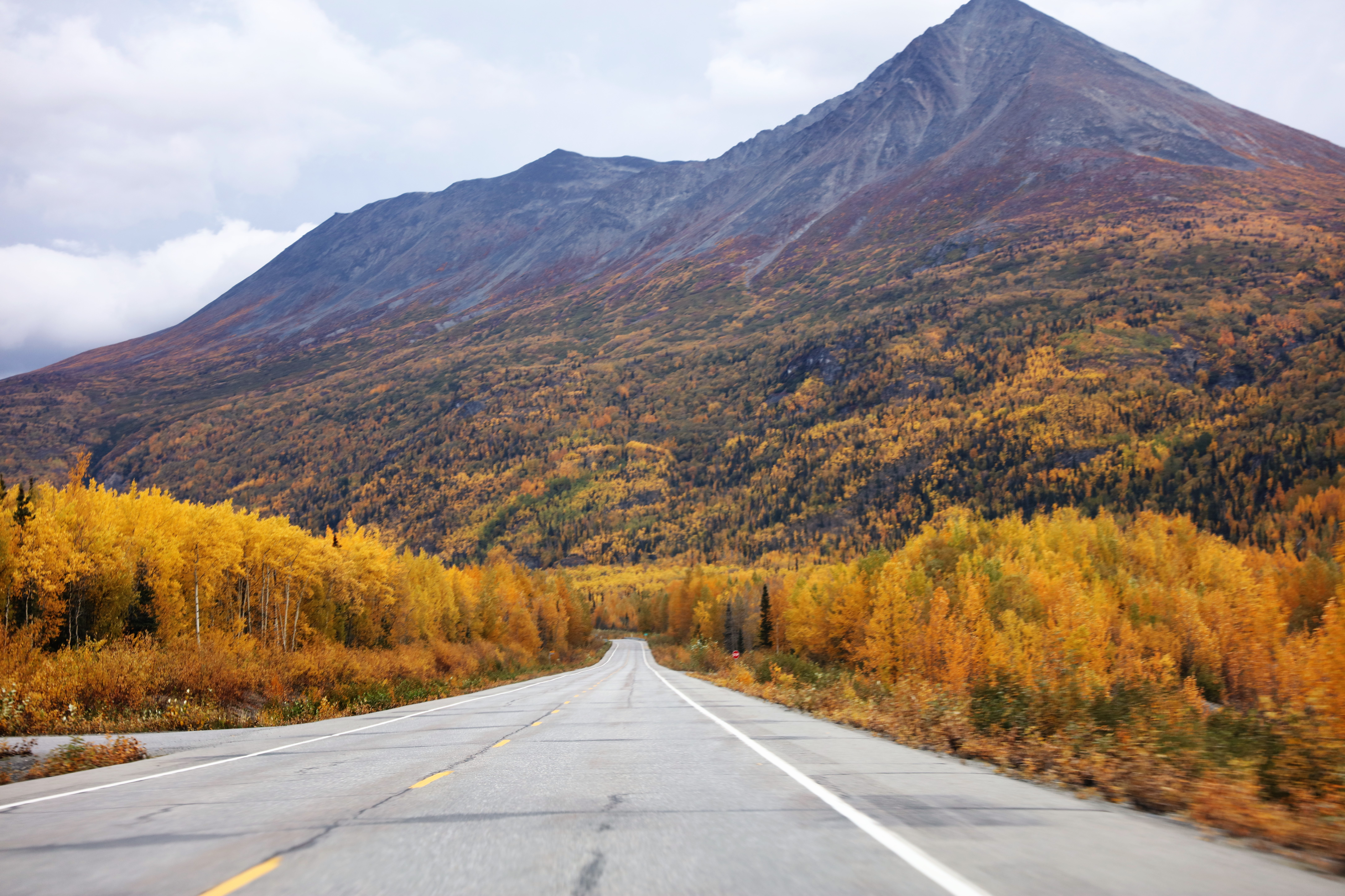 The Richardson Highway between Thompson Pass and Copper Center.